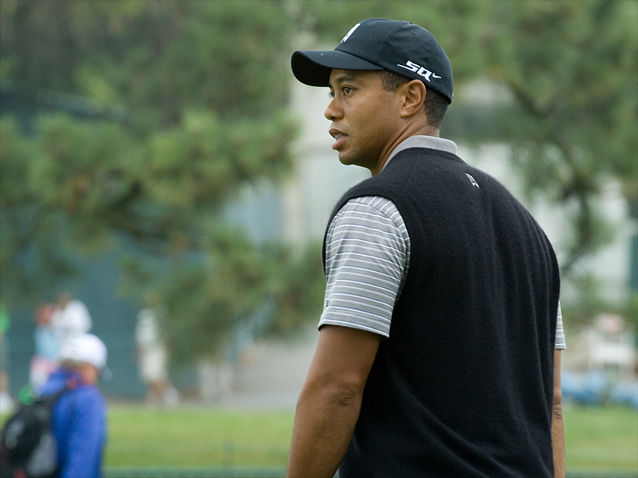 A view of Tiger Woods as he walks off the 8th green at Torrey Pines during this morning's practice round at the 2008 U.S. Open in San Diego, CA.